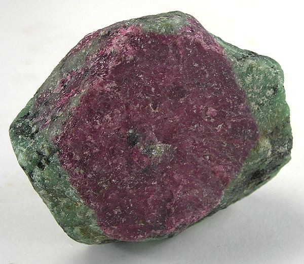 Corundum (Var.: Ruby), Zoisite Locality: Longido, Mt Kilimanjaro, Kilimanjaro Region, Tanzania (Locality at ) Size: 5.8 x 5.4 x 3.0 cm. You can clearly see the sharp hexagonal shape of the large maroon-colored ruby (corundum) crystal here, still encased in the surrounding green zoisite in which it crystallized. The ruby crystal measures 4.5 cm. From the collection of noted California collector Charles Hansen.